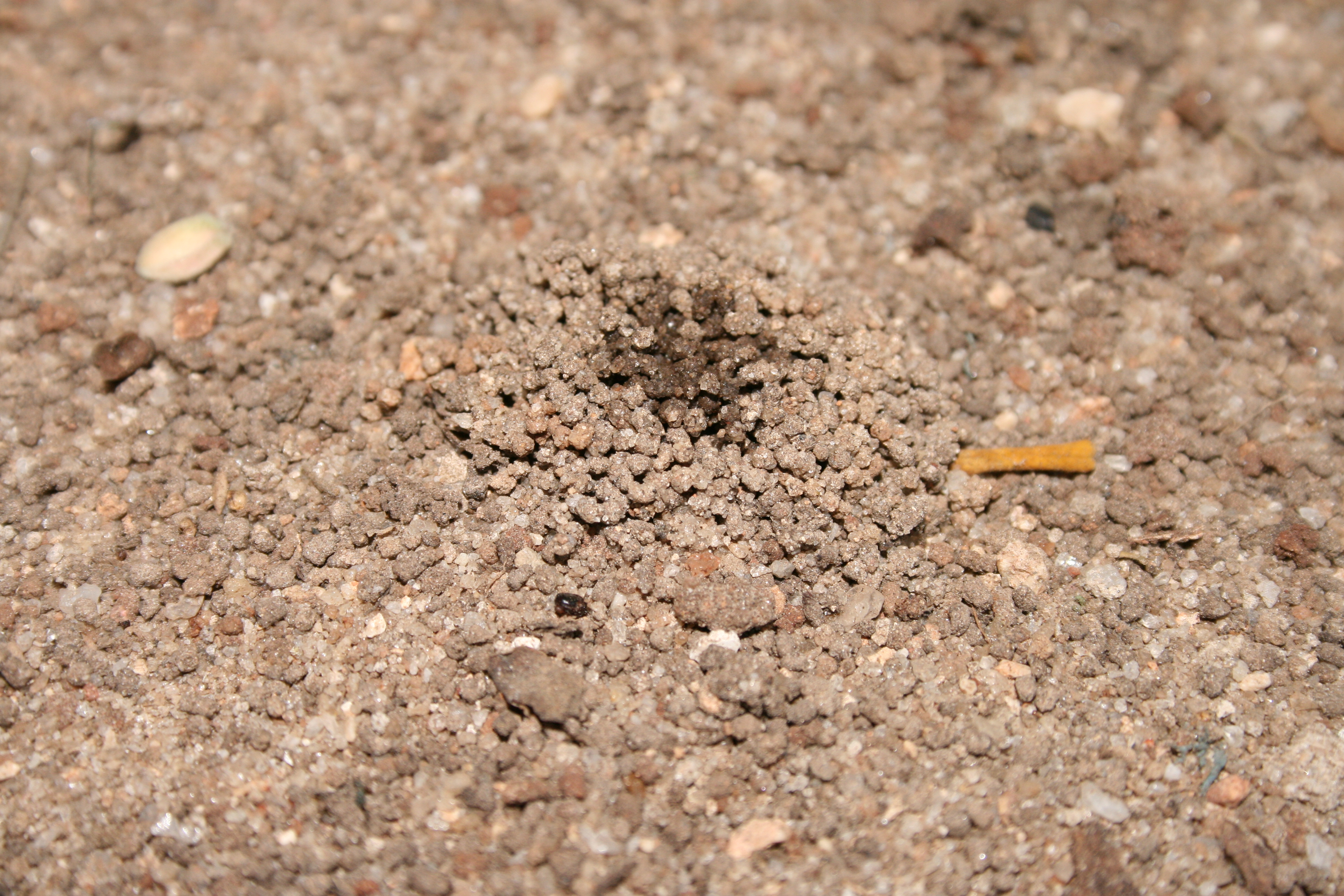 Earthworm faeces